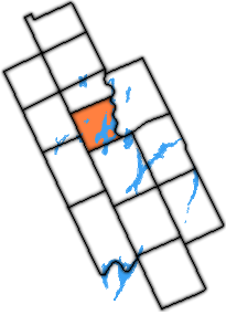 Map of Victoria County (Now city of Kawartha Lakes), with former township of bexley highlighted in orange.